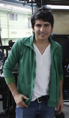 Dubán Bayona